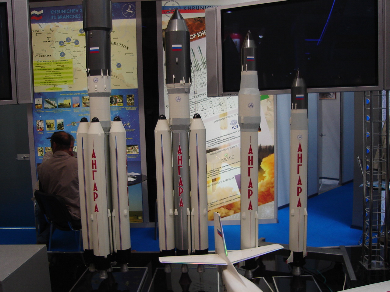 Models of the Angara rocket rocket family at the Khrunichev stand at the 2007 Paris Air Show. (featureless bottom cropped from original)